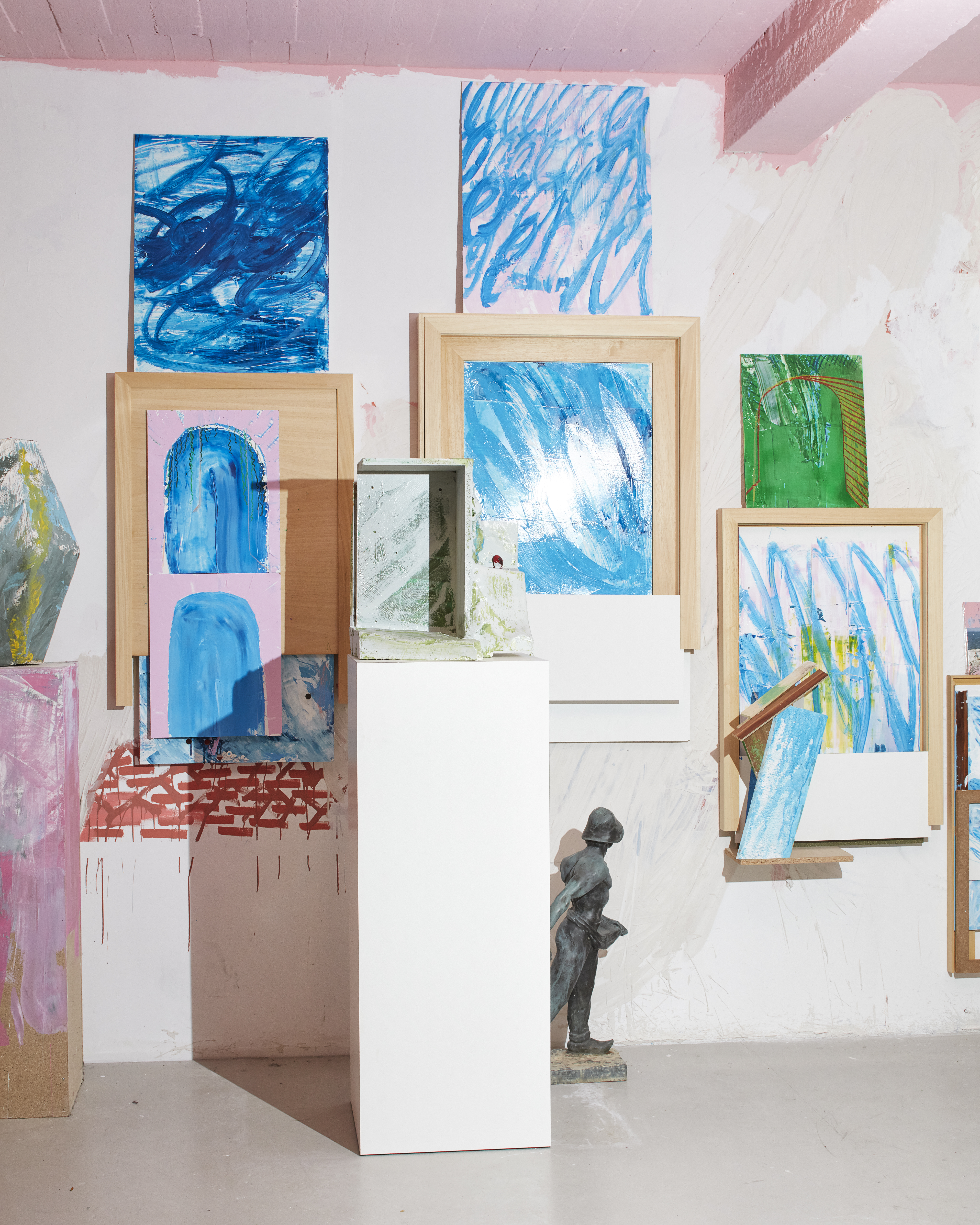 View of the Abstract Capitalism II exhibition space